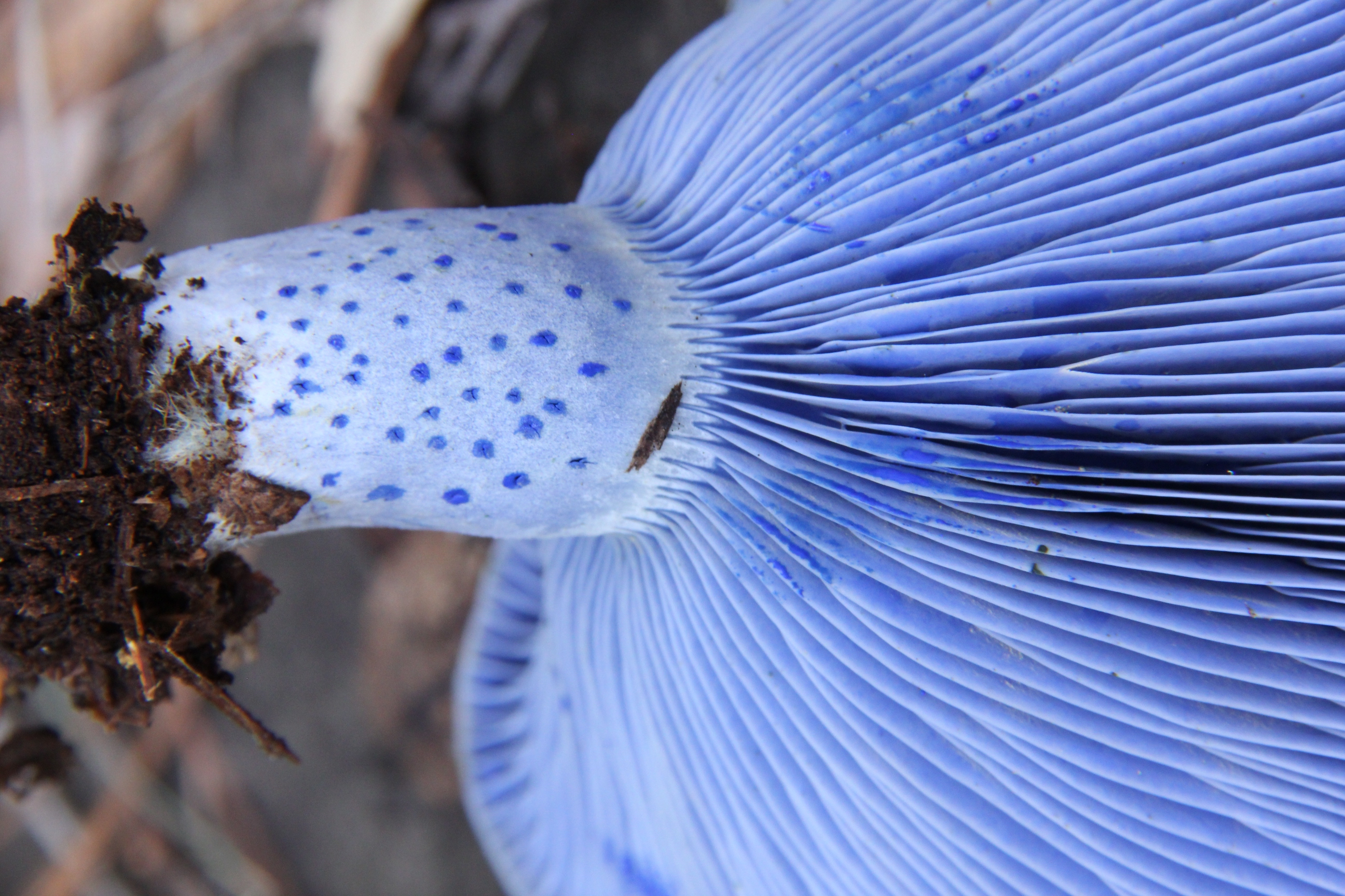 Lactarius indigo (Schwein.) Fr. Image location: Sierra de Quila, Jalisco, Mexico Under oak. Recognized by sight For more information about this, see the observation page at Mushroom Observer.